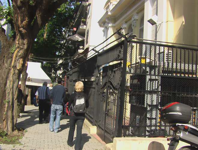 Saloniki_Jewish_school_entrance. Credit: Courtesy of Arie Darzi to memorialize the Jewish community in Greece.